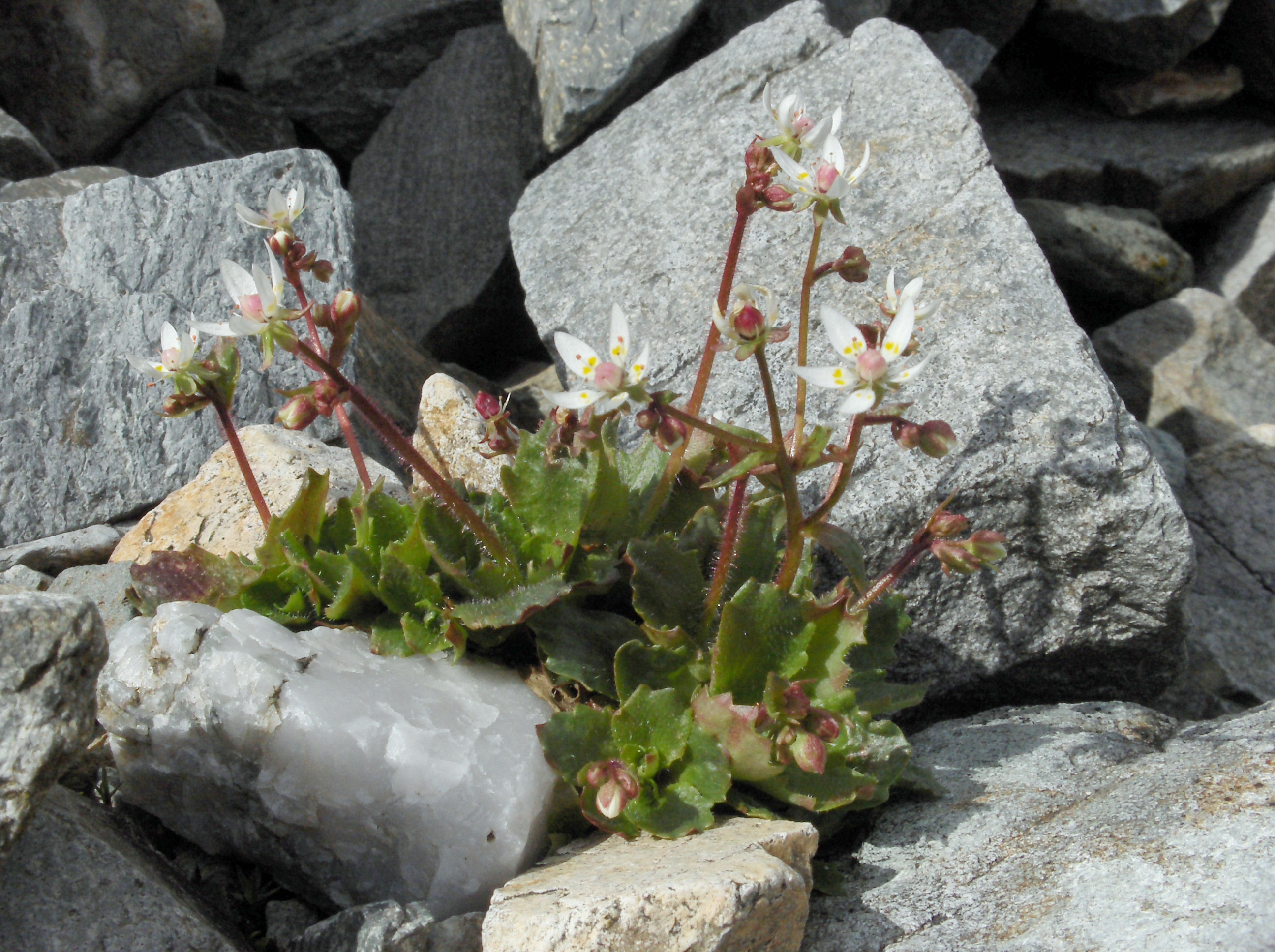 Saxifraga stellaris subsp stellaris in Cwm Tryfan, Snowdonia, Wales.